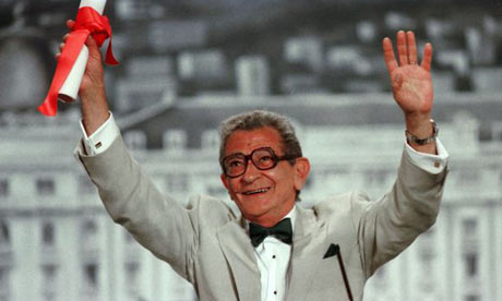 Youssef Chahine, prominent Egyptian filmmaker and director of Greek-Lebanese ancestry.